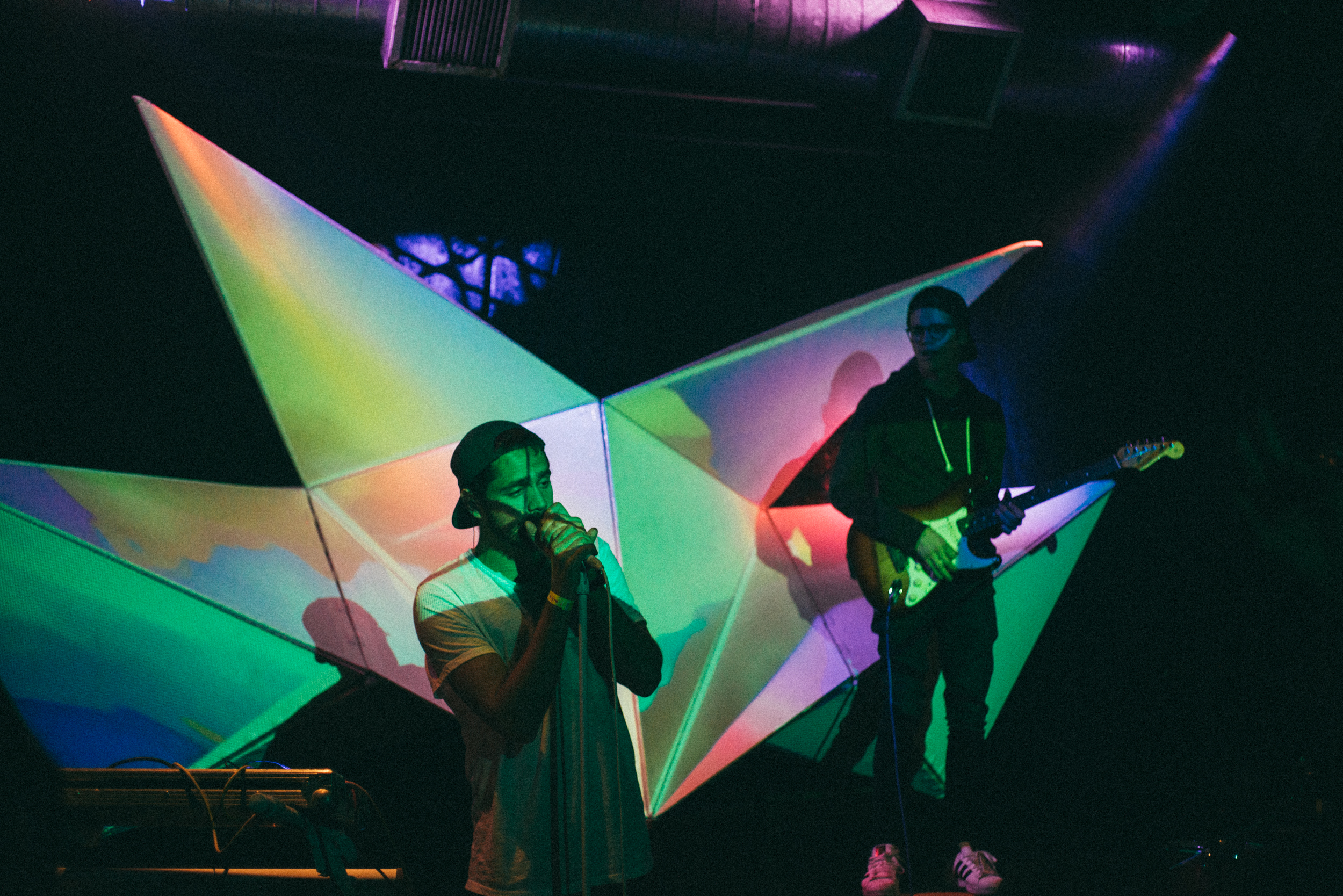 Lemaitre performing in 2015